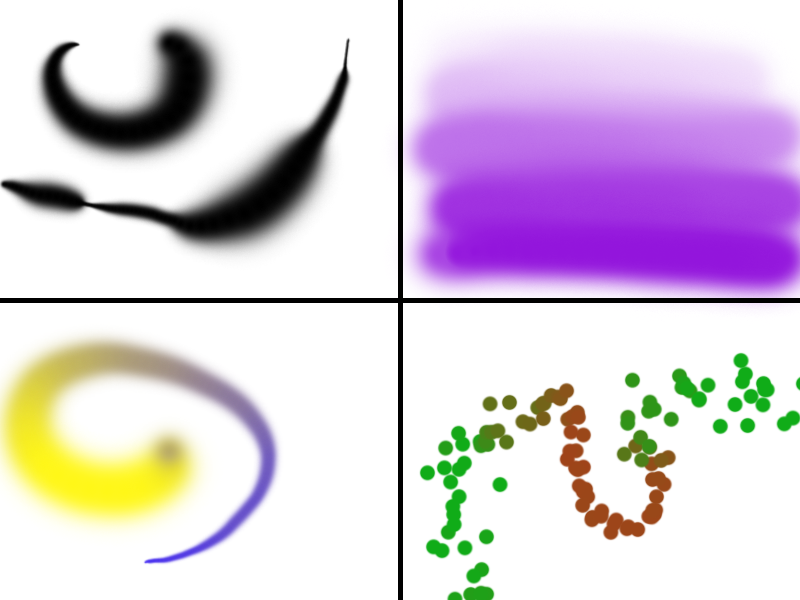 visualisation of the pressure sensitivity of a wacom intuos 3 pen tablet